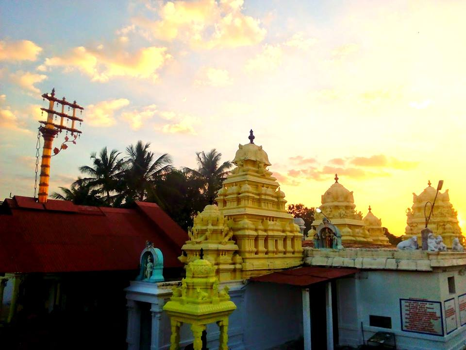 Karaikandeswarar temple photo from natarajar mandapam